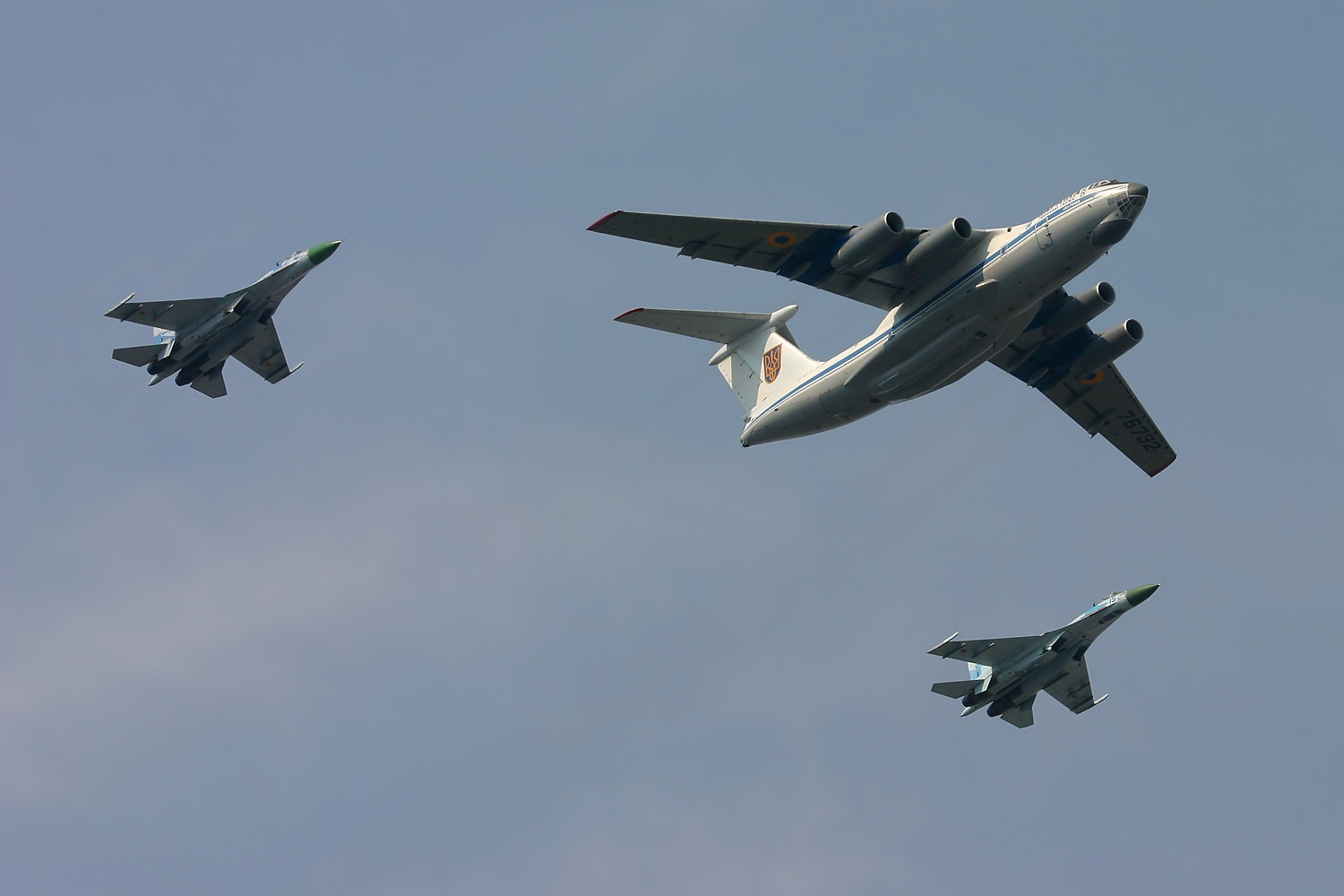 Independence Day in Ukraine: 'flanked-by-Flankers' formation of Il-76 and two Su-27s during the military parade.